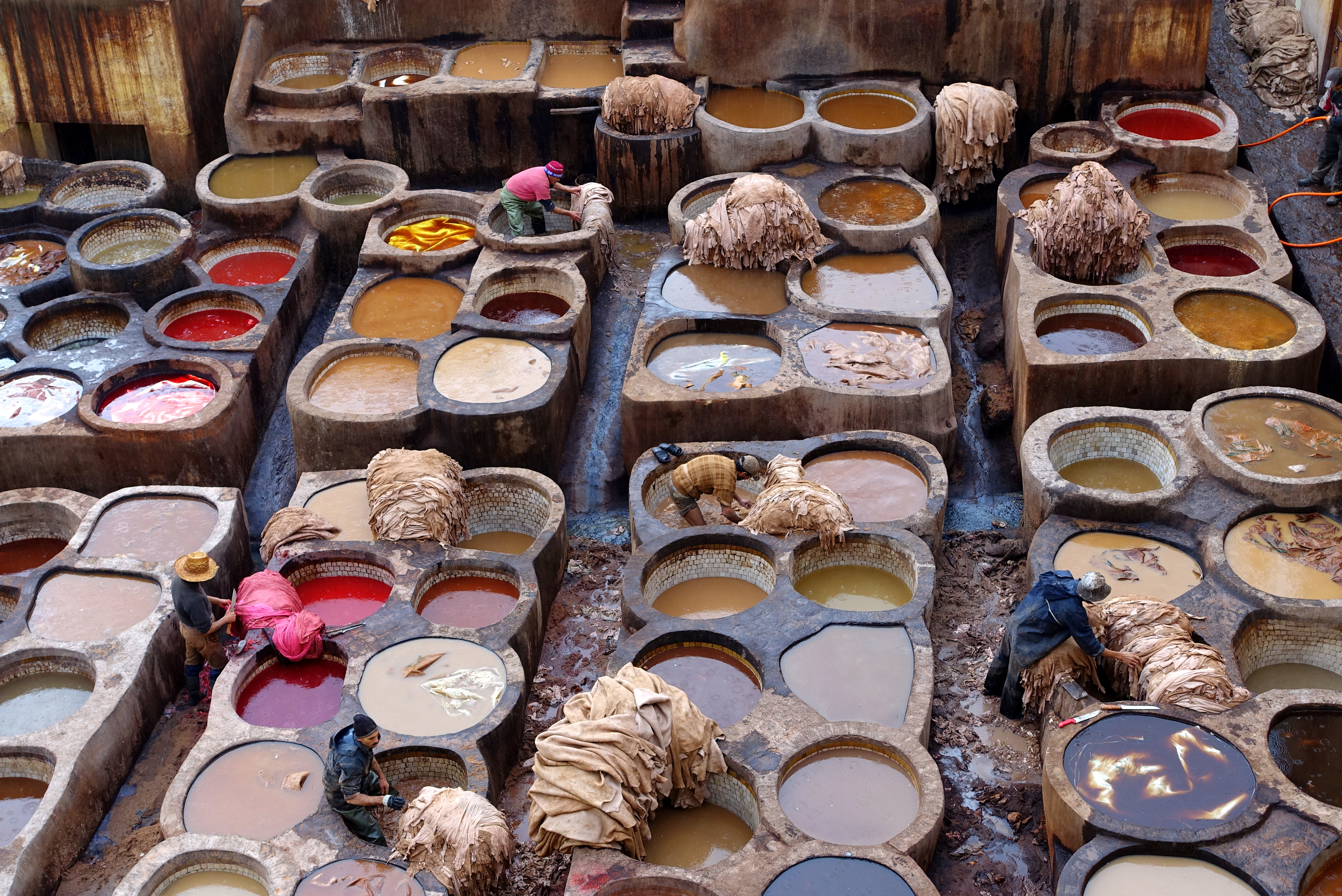 Tannery workers in Morocco, in their tough task of dyeing the skins that will turn into beautiful pieces of leather. The environment is unhealthy and the smell unbearable.